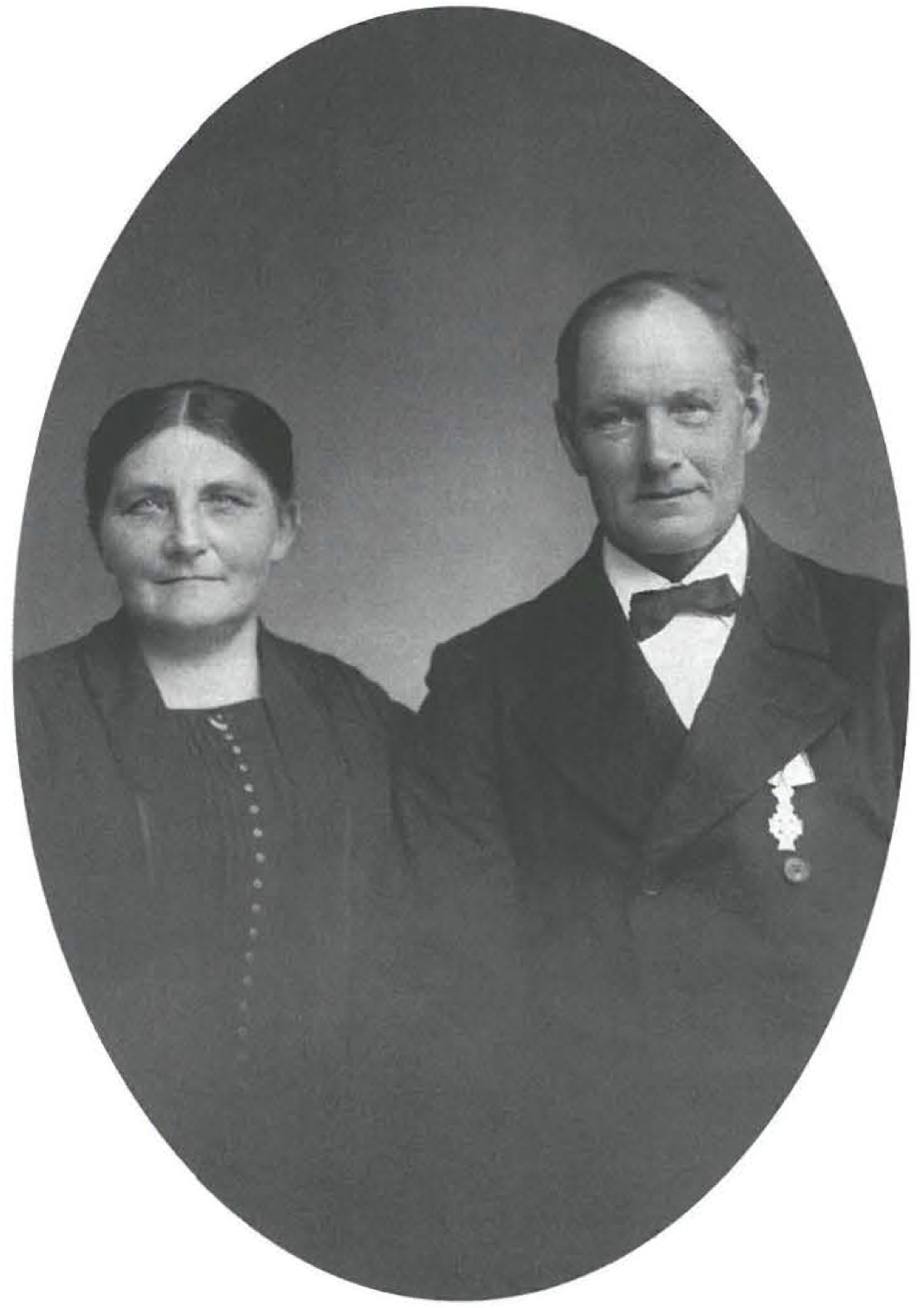 Fisherman and lifeboatman Peder Pedersen (Knudsen), born in Vorupør, Denmark, 12 May 1866, died there 6 May 1954. Wife Ane Josefine, born Josefsen, born in Vorupør 23 June 1874, died there 6 December 1962. Married 9 October 1896 in Vorupør Church. The photography has been published in Jul i Thy, 2003, 73th year, ISBN 87 85 131 342, p. 56-57, with a description of the grandson Johannes Kristensen Udmark and a quote from Peder Pedersen Knudsen's autobiography, kept at the Danish Chapter of the Royal Orders. The photography is in private family ownership.